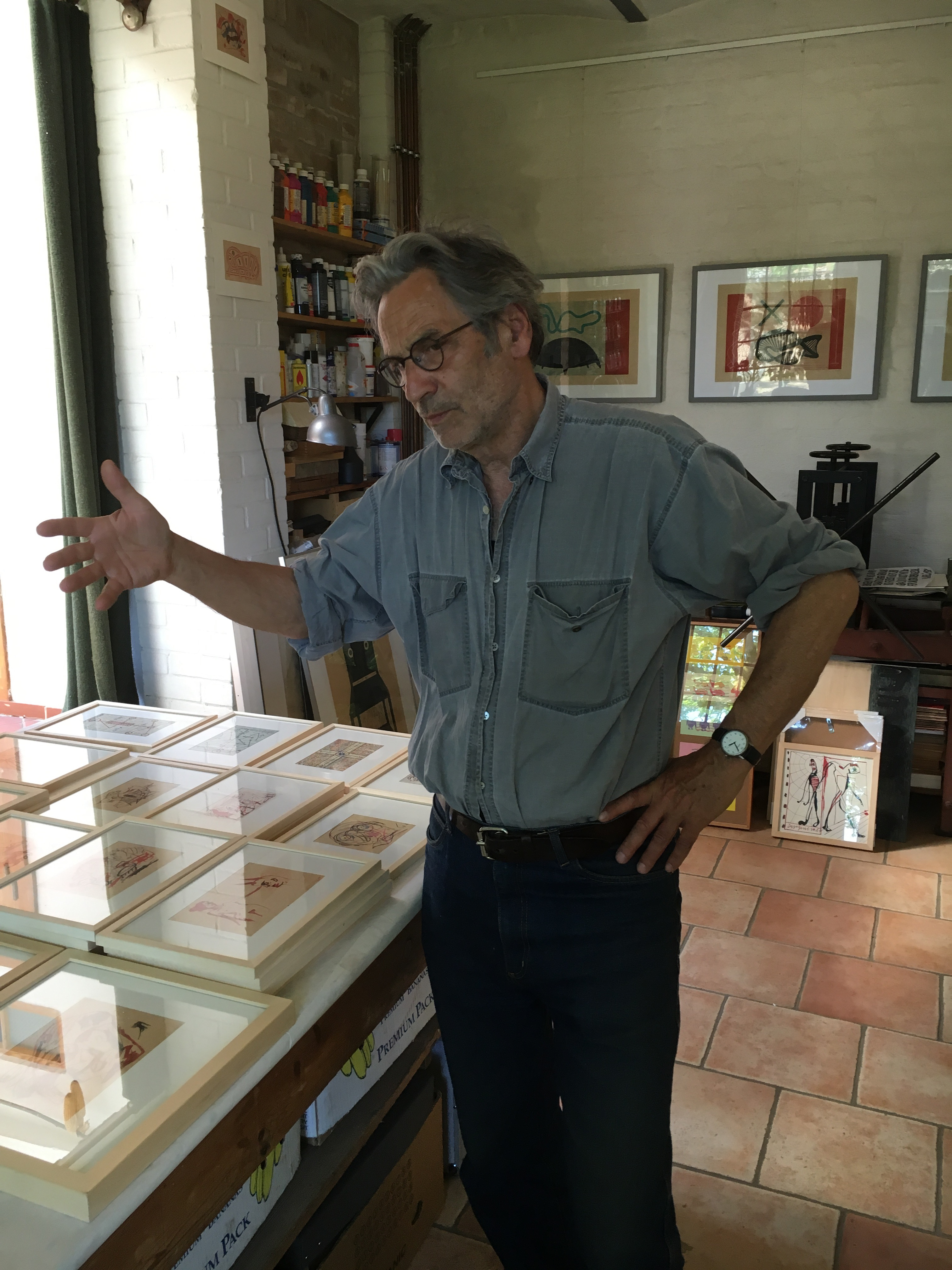 Studio visit at Klaus Storde in Prenden.